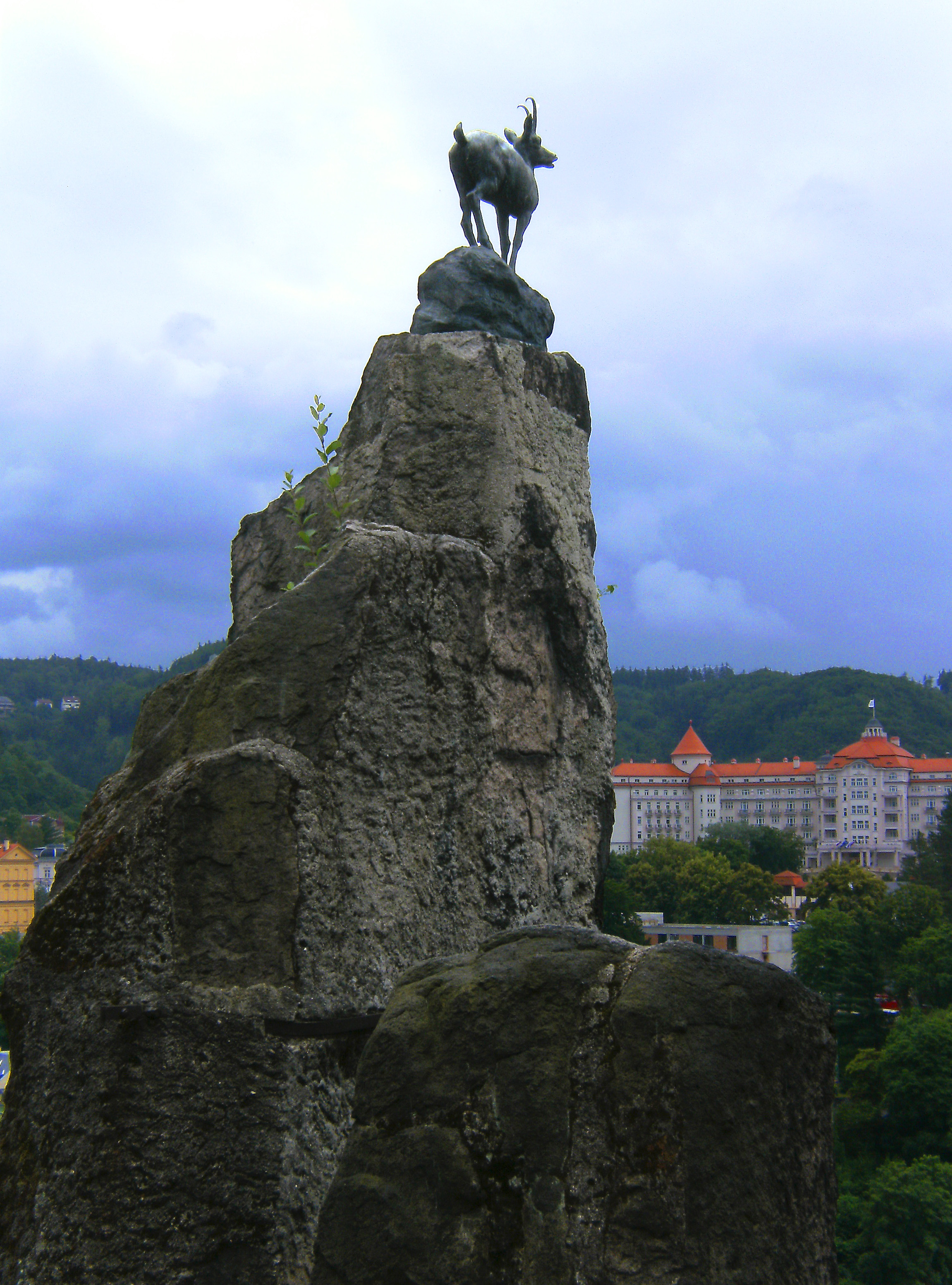 Rupicapra statue at Stag jump (Jelení skok) near Karlovy Vary